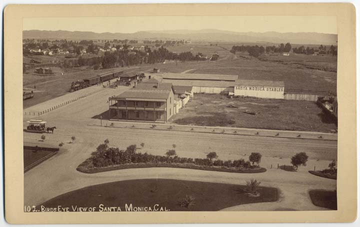 Santa Monica, aerial view; shows hotel on corner, horse-drawn trolley in street (left), Santa Monica railroad station with train (distant left), Santa Monica Stables (center right), landscaped parkway (center foreground). ca. 1894. Photo taken from Arcadia Hotel. Hotel's lawn is in foreground.